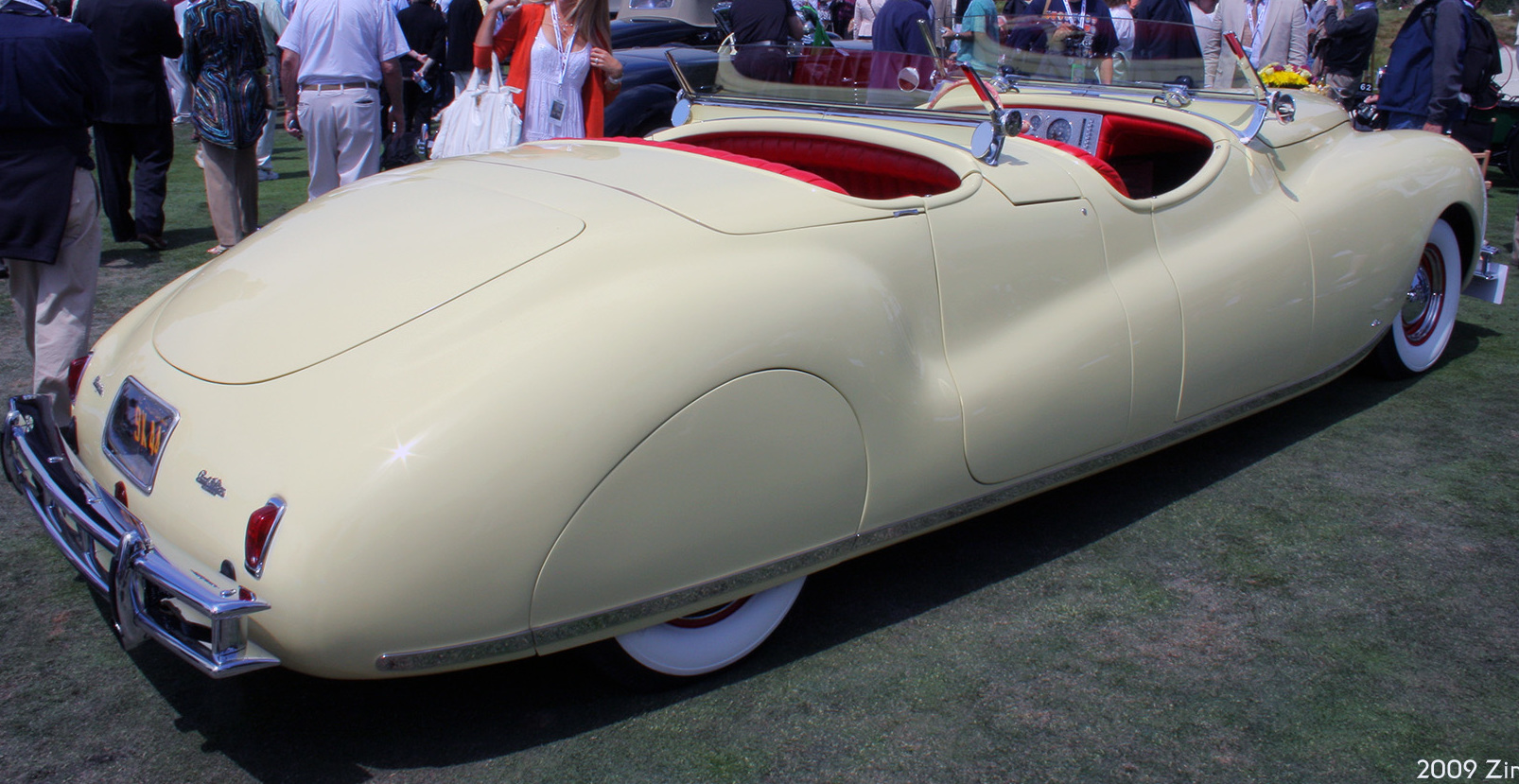 Chrysler LeBaron Newport 1941 Pebble Beach Concours d'Elegance, Aug 16, 2009